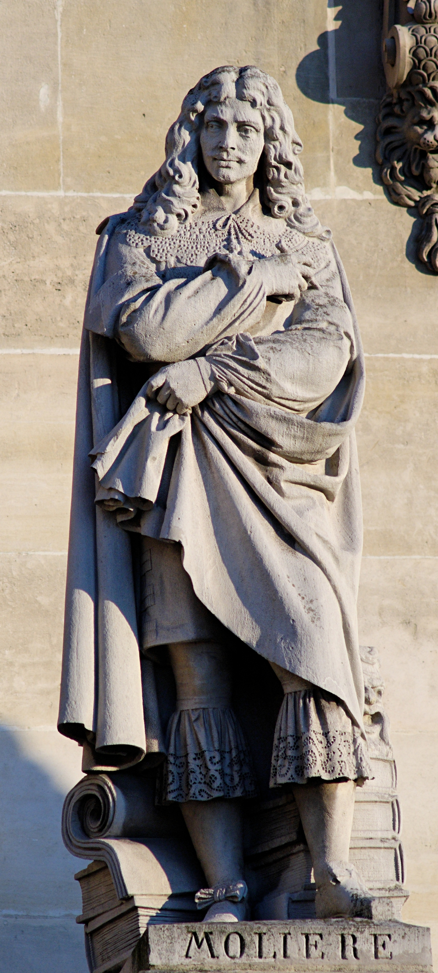 Molière by Bernard Seurre, aka Seurre the Elder. Stone, before 1853. Pavillon Rohan, 4th statue from the left, Cour Napoléon in the Louvre.